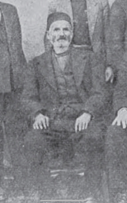 Ефтим Тренев Аврамоски- Македонско Револуционер во ВМРО. This is Eftim Trenev Avramoski who was a Macedonian Revolutionary and fighter for IMRO/VMRO. He was born and lived in the village of Kuratica in Macedonia and would often wear a fez as it was popular at the time. Born c.1863 and died c.1948. He had two sons, Mile and Trene. Mile would later die coming back from WWII which had a major impact on Eftim causing him to become depressed for his remaining 1-5 years of life. He fought in many villages around Macedonia such as Kostur, S'pp and others. He lived in Sofia, Bulgaria for half a year, probably for VMRO reasons as VMRO was allied with independant Bulgaria who helped them.